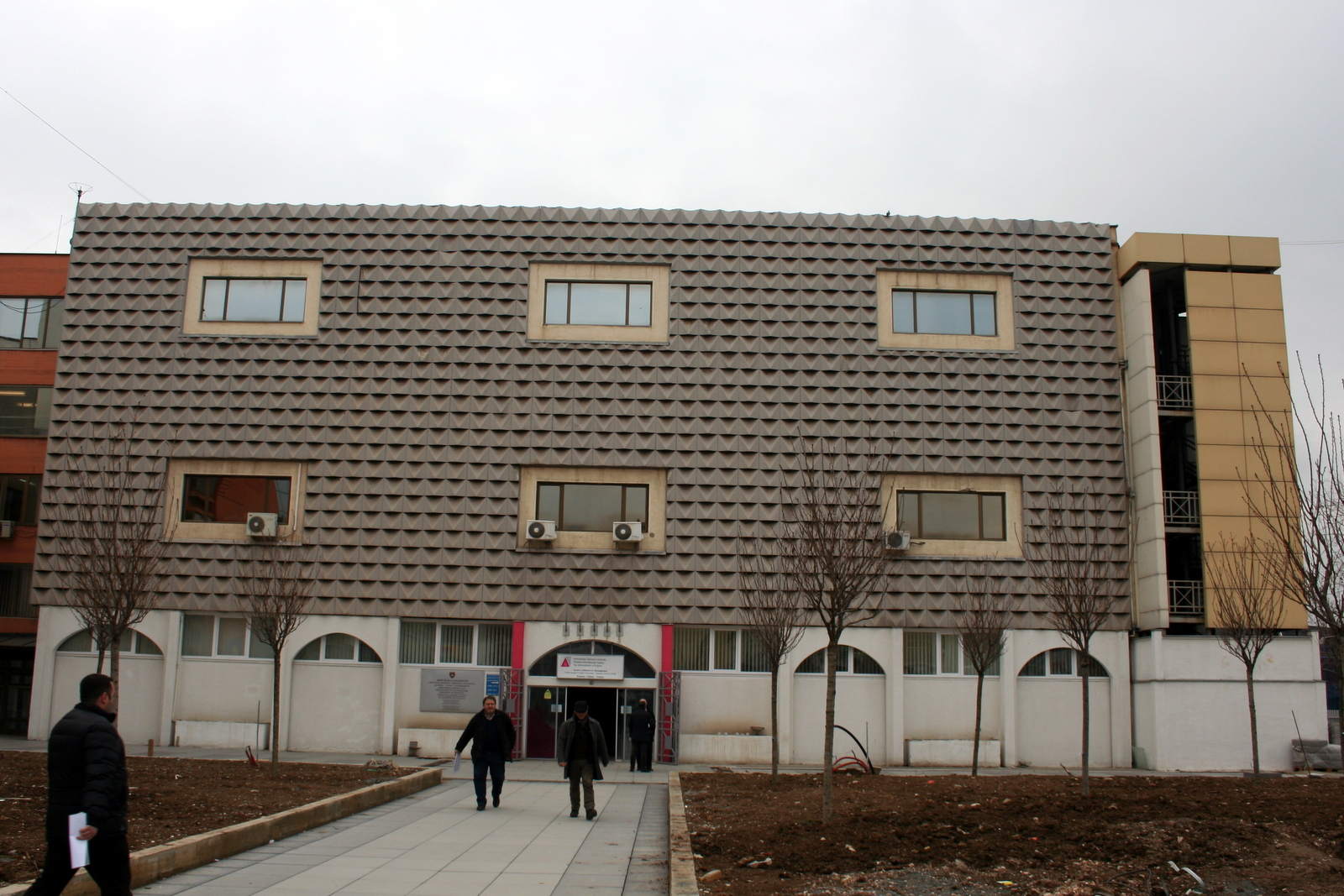 Tax Administration in Prishtina - Ex Germia Building